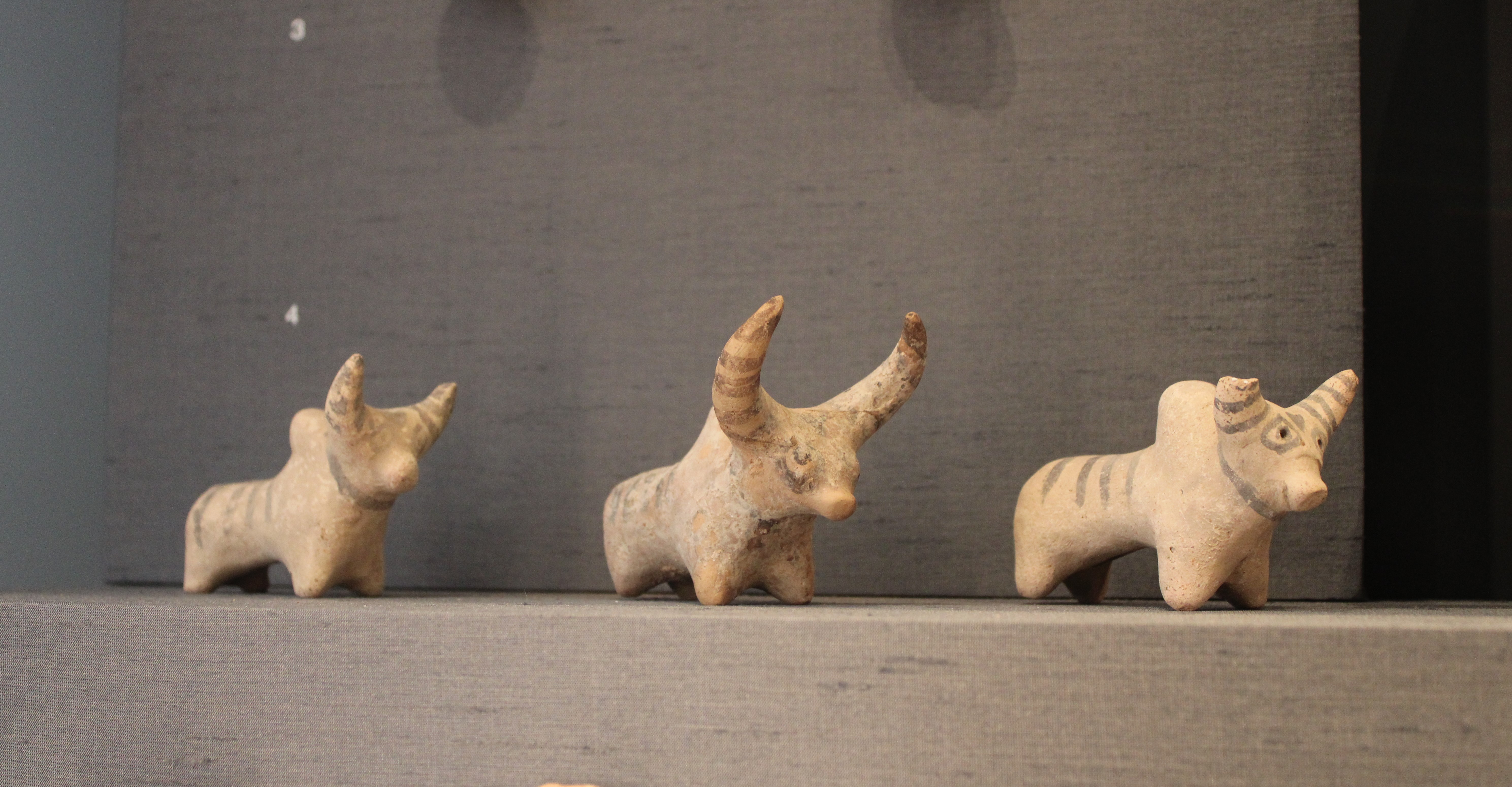 Buffalo figurines, terracotta, from Baluchistan (Pakistan), IIIrd millennium BC. British Museum, displayed as "Pre-Indus Period".